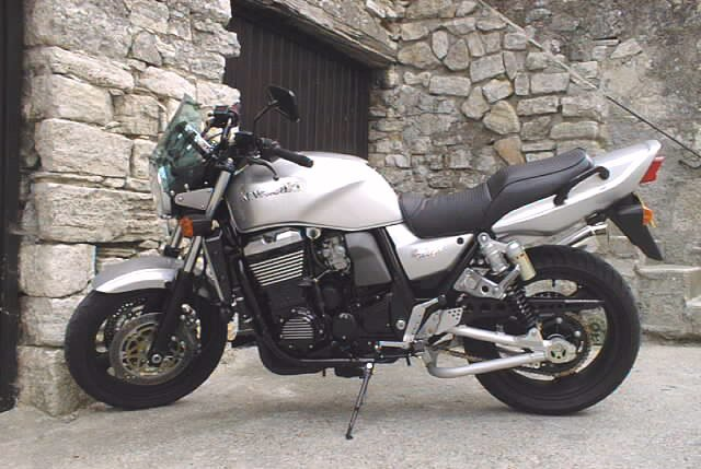 Kawasaki ZRX 1100 N roadster in its Galaxy Silver delivered.